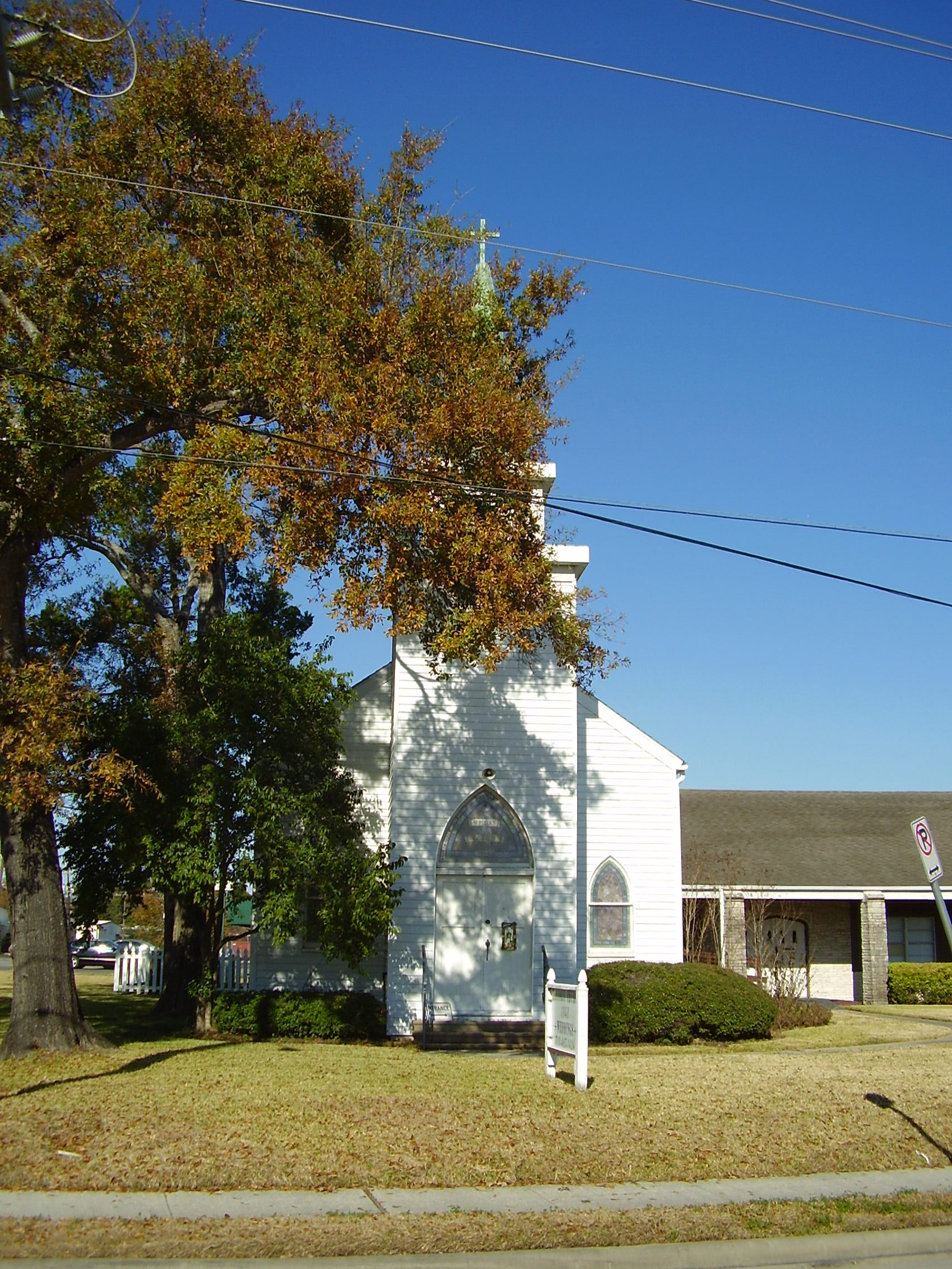 The historic St. Peter's United (Lutheran) Church in Spring Branch